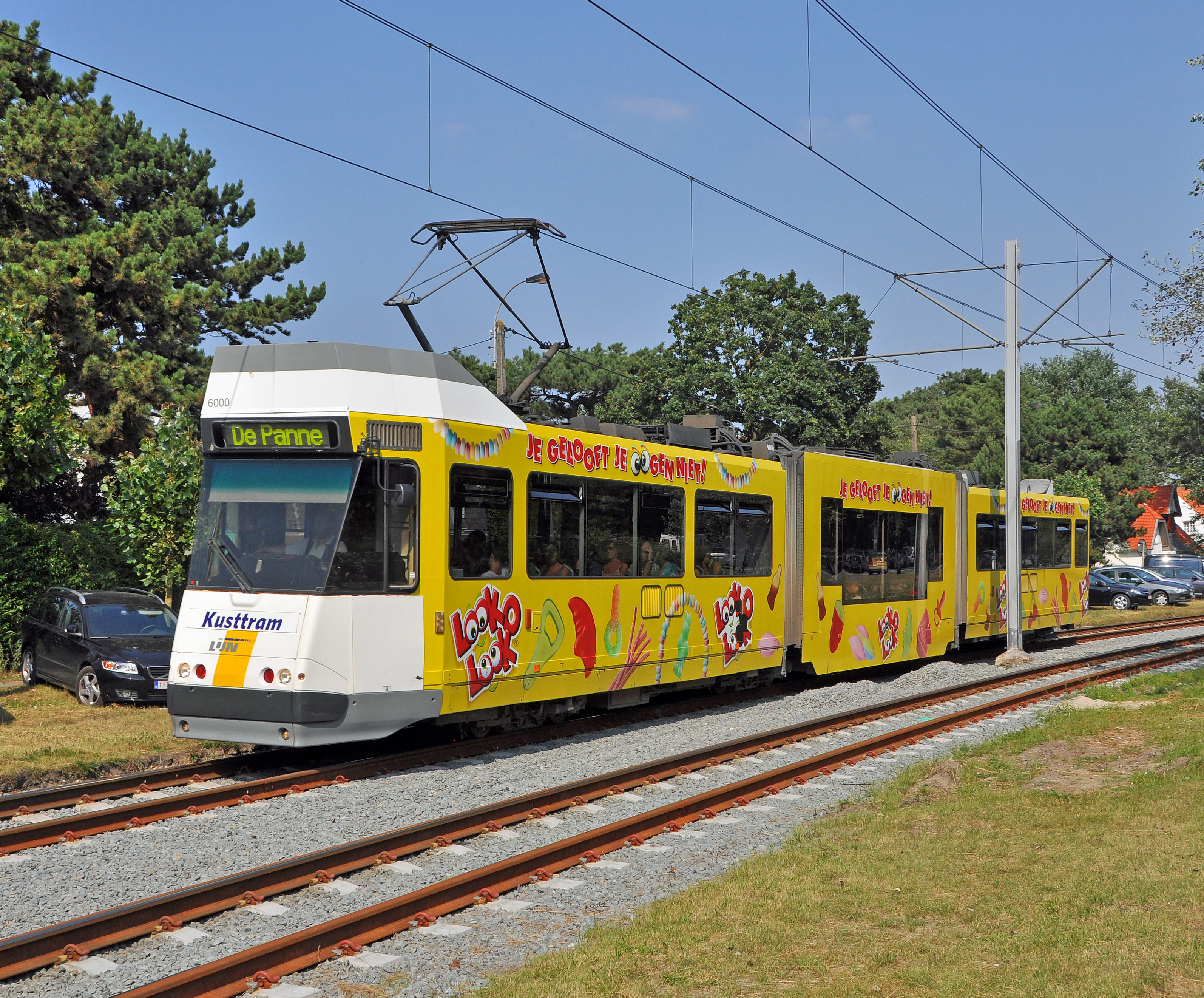 The belgian coast tram - a LRV built by BN - at De Haan (Belgium), coming from Knokke and heading for De Panne